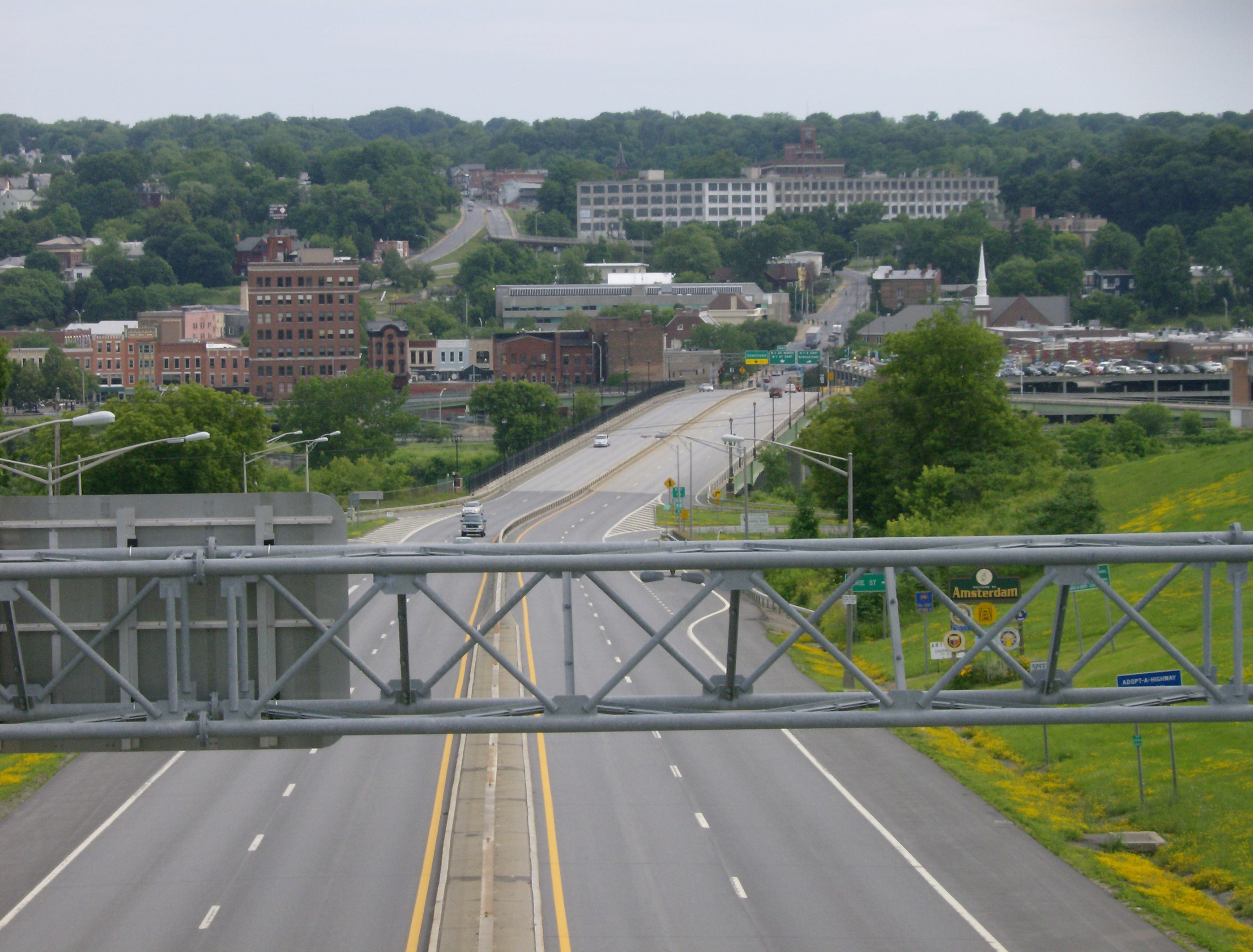 Route 30 northbound in Amsterdam, heading to downtown. Market Street hill is viewable in the distance.